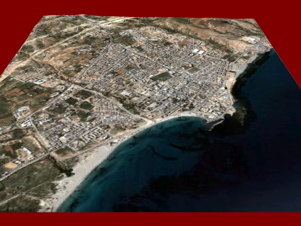 Al Khums, in Tripolitania - Northwestern Libya. Satellite picture from NASA-U.S.